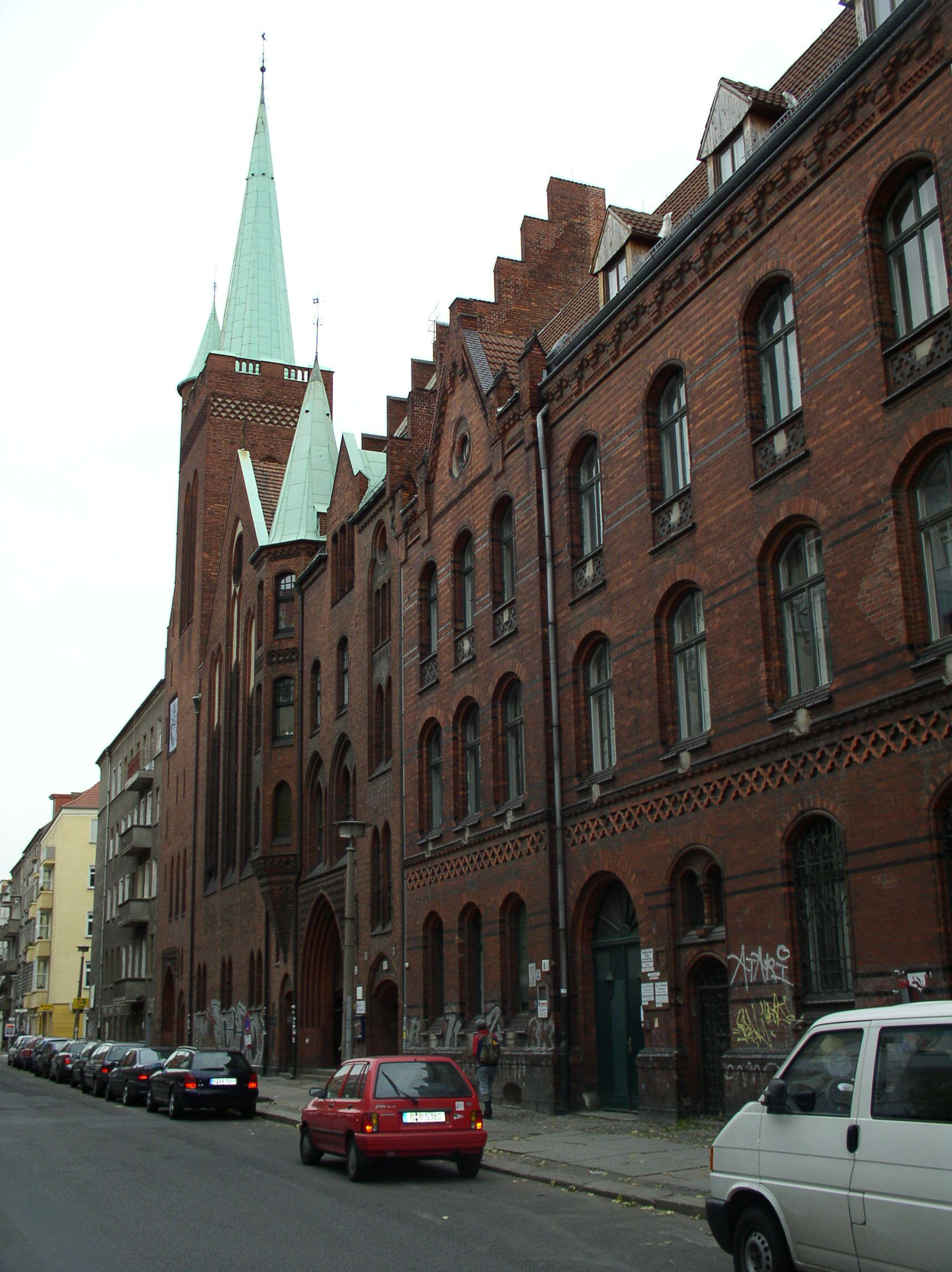 Galilee Church and on its right the former Liebig High School in Rigaer Straße, Friedrichshain, Berlin.